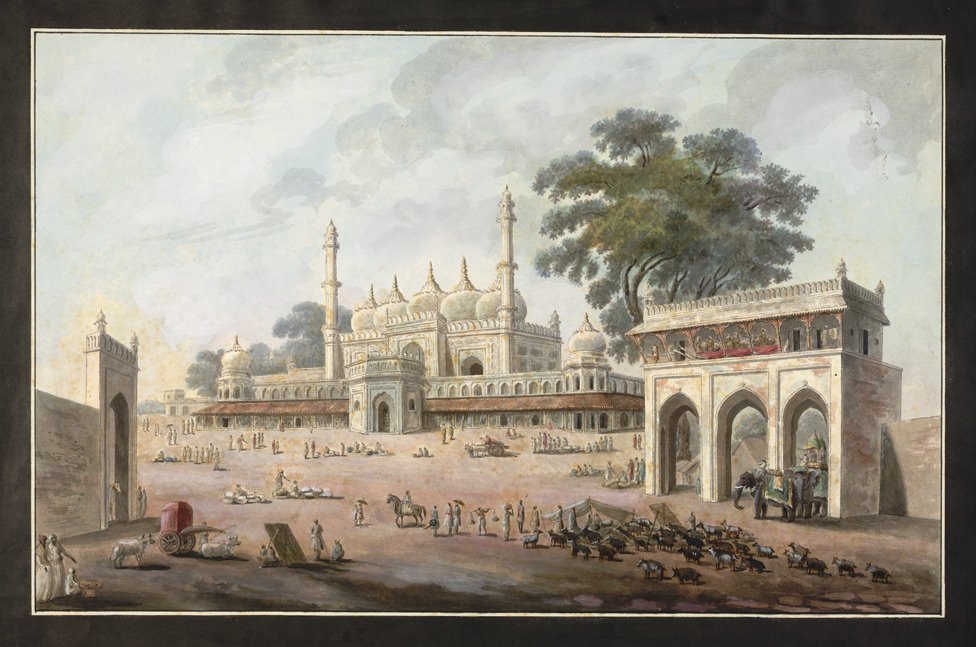 A painting of the Chawk Masjid.